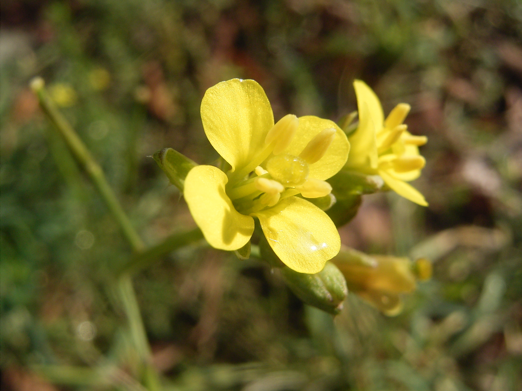 Deze foto toont de Kleine zandkool. Ik nam de foto in Den Haag. This photo shows Diplotaxis muralis. I took the photo in The Hague, Netherlands.